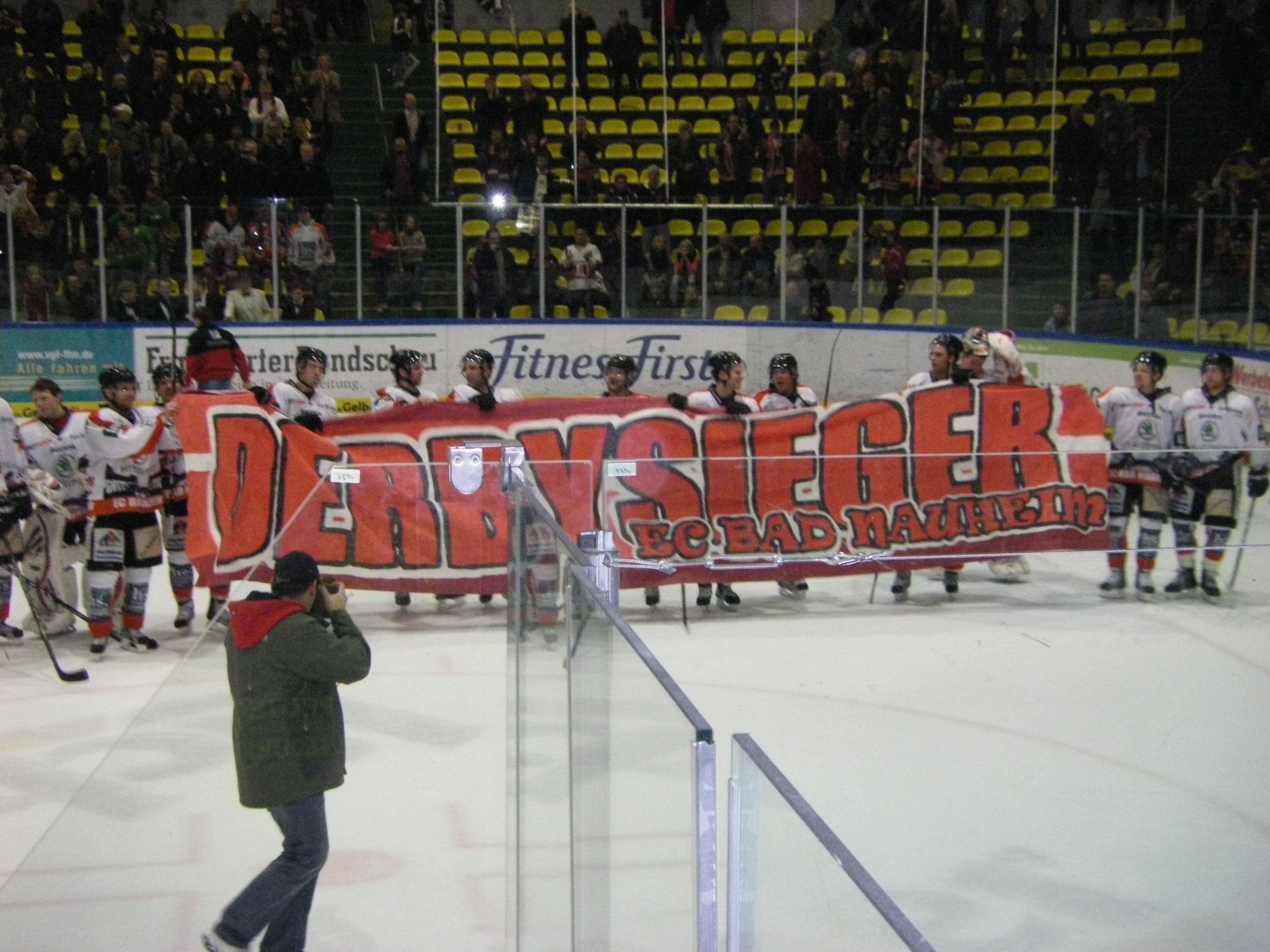 The hockey team of EC Bad Nauheim is celebrating their 4:2-victory over hosts Löwen Frankfurt on January 22, 2012